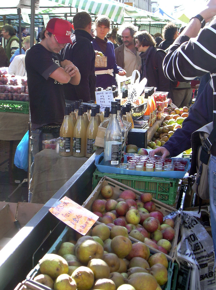 User lighterthief October 7th, 2006, in Broadway Market (see Talk pages for permission)